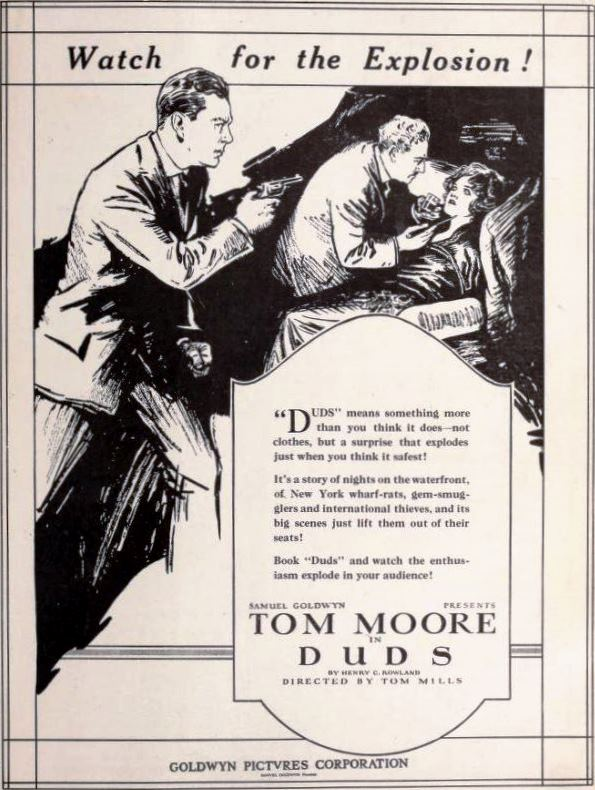 Advertisement for the American mystery film Duds (1920) with Tom Moore, on page 99 (inside back cover) of the March 27, 1920 Exhibitors Herald.